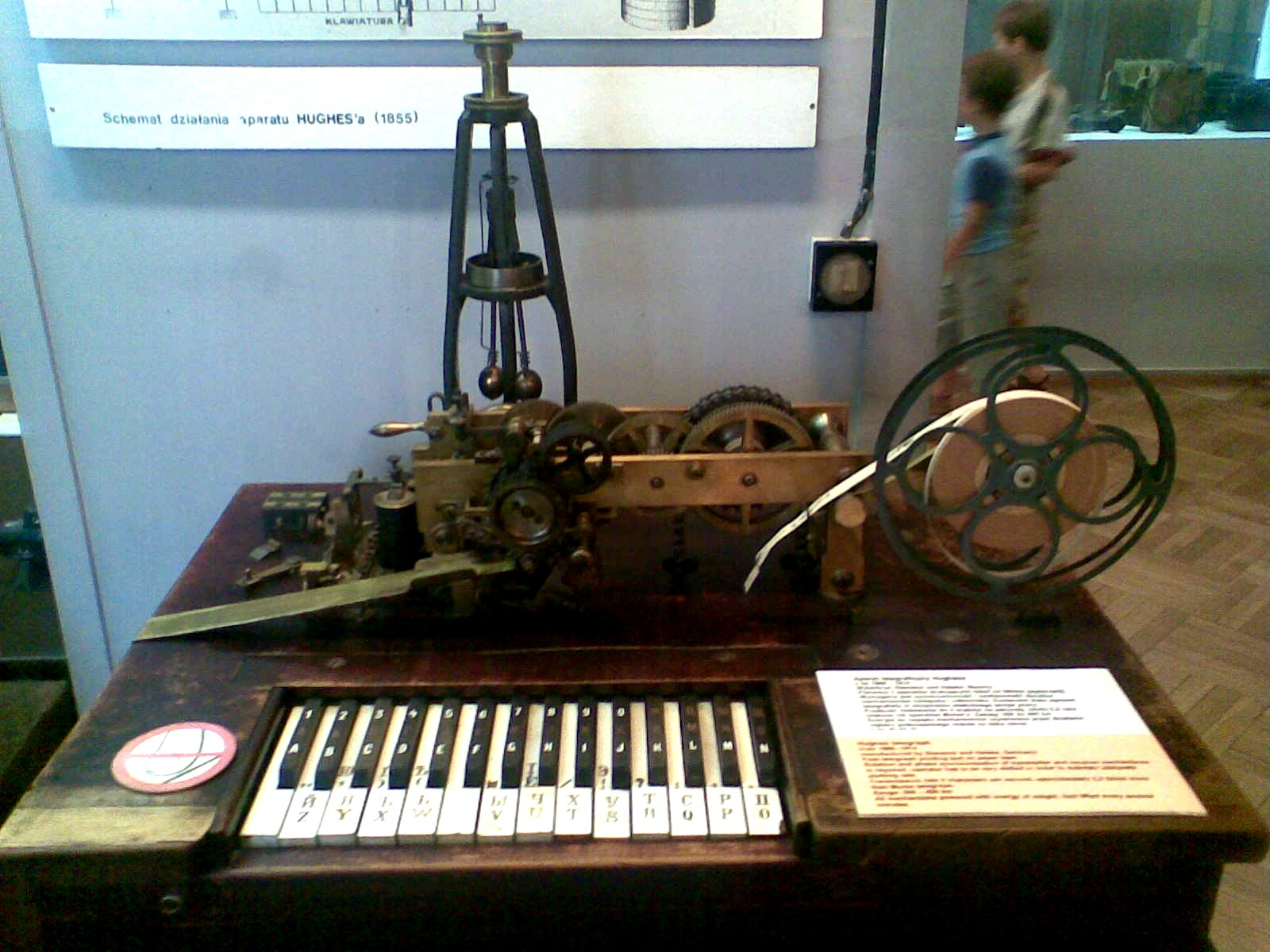 Hughes telegraph (1866-1914), first telegraph printing text on a paper tape. Manufactured by Siemens und Halske, Germany. Range 300-400 km. Exhibit of Warsaw Museum of Technology (Muzeum Techniki).